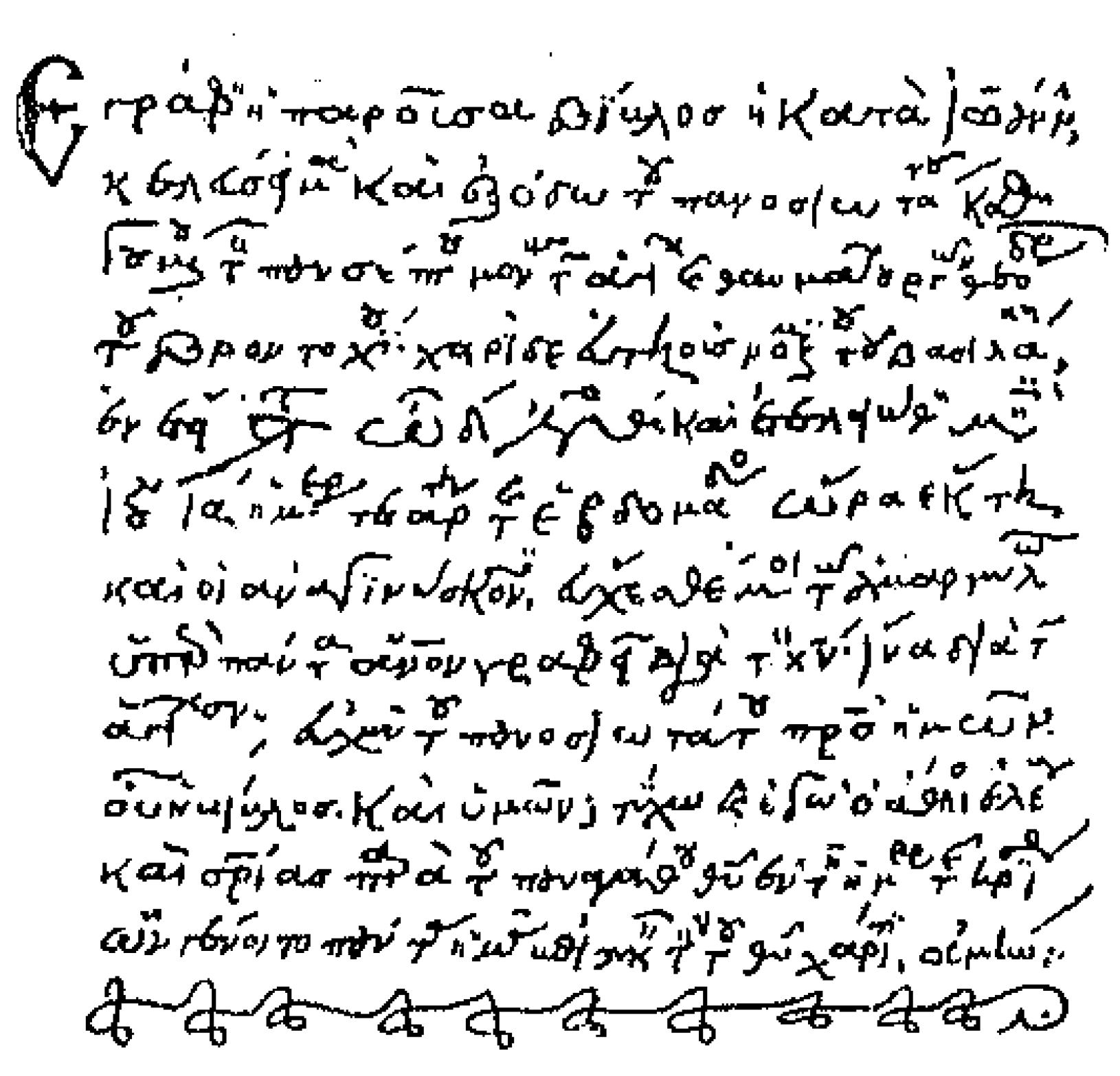 greek manuscript, 13th century